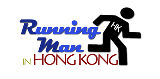 The logo of RunningMan in Hong Kong(RMHK)